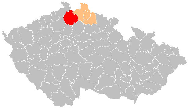 District of Česká Lípa